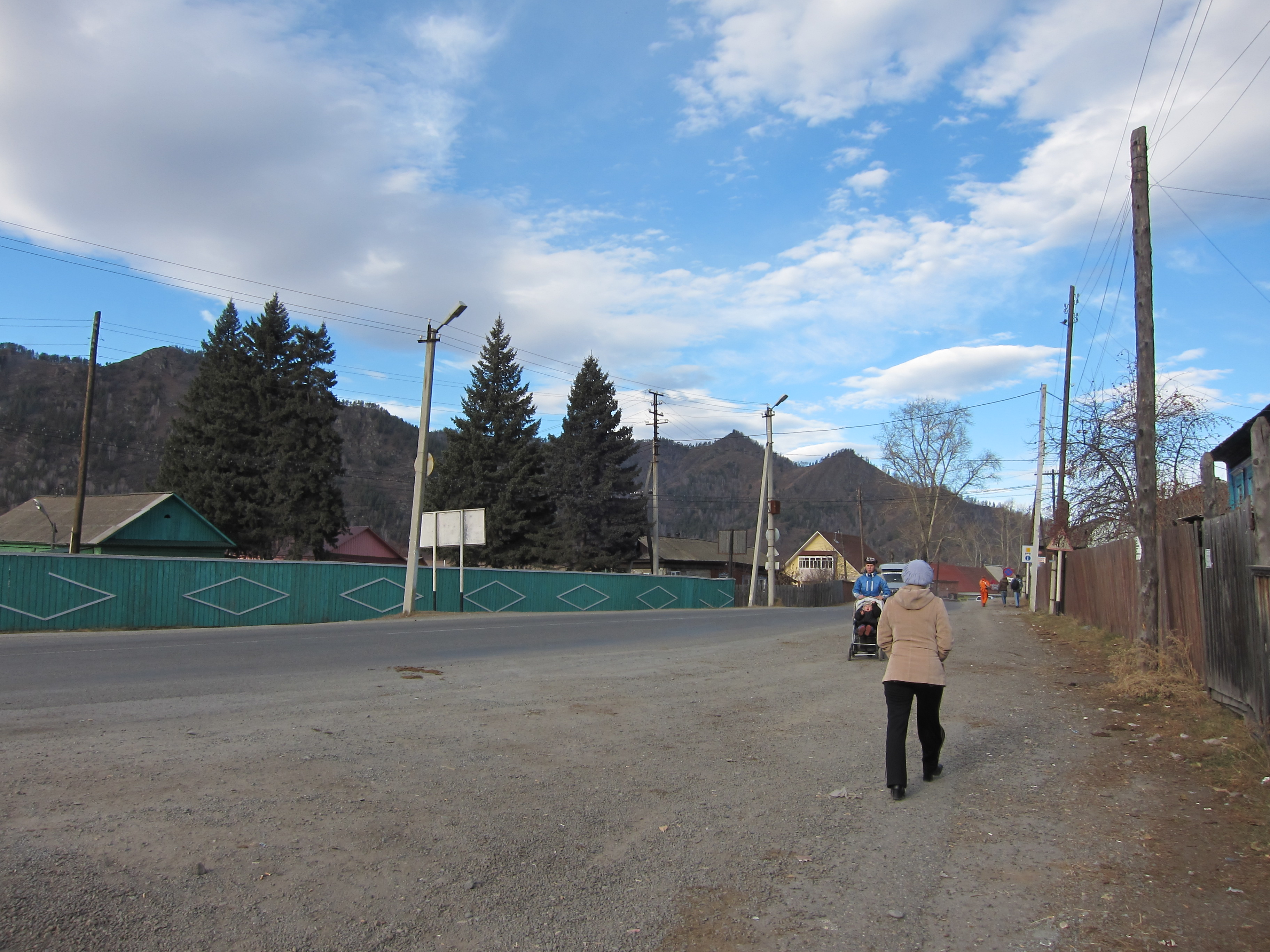 Elekmonar settlement in Chemalsky District of the Altai Republic